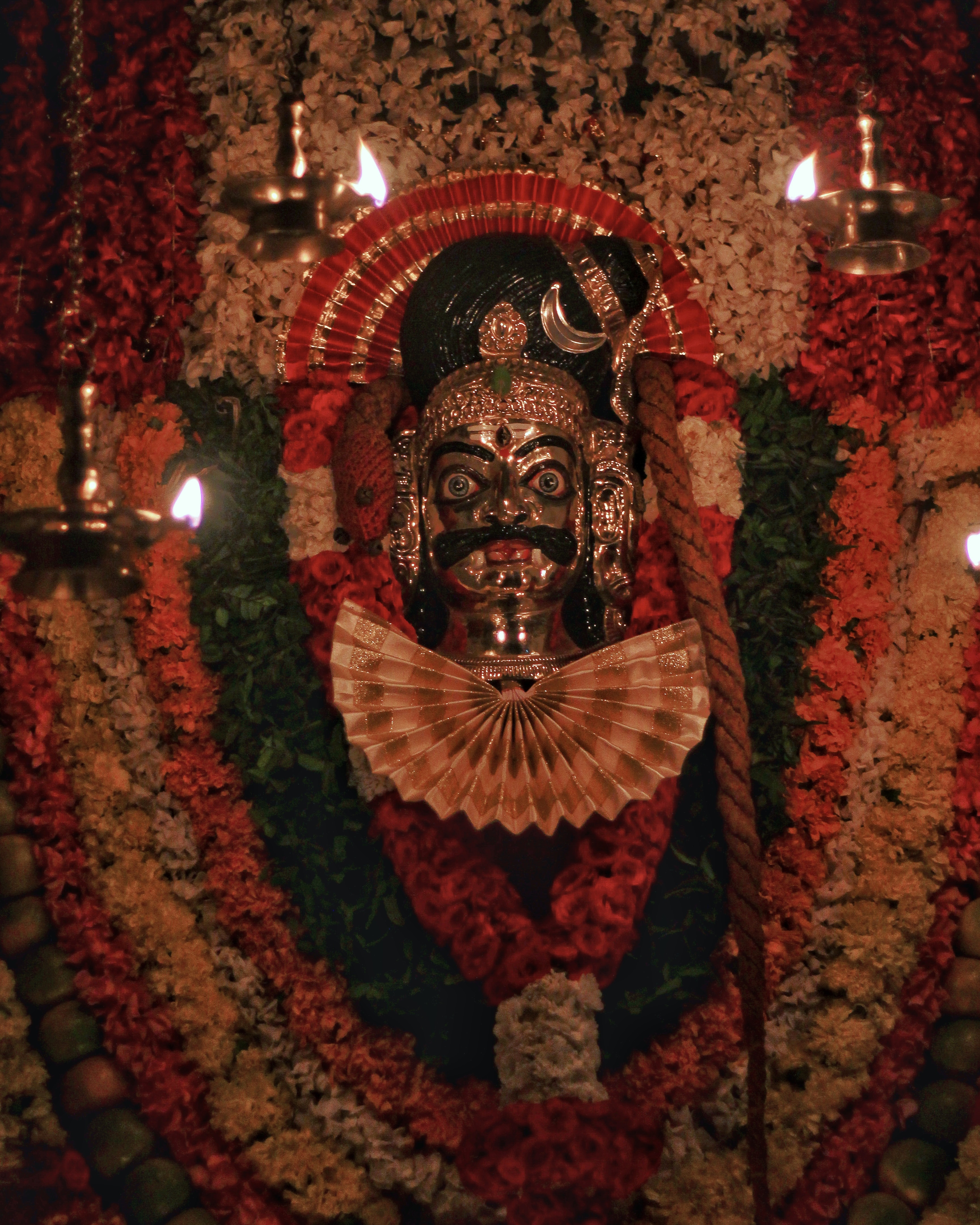 Shiva Sudali madan shivarathri festival